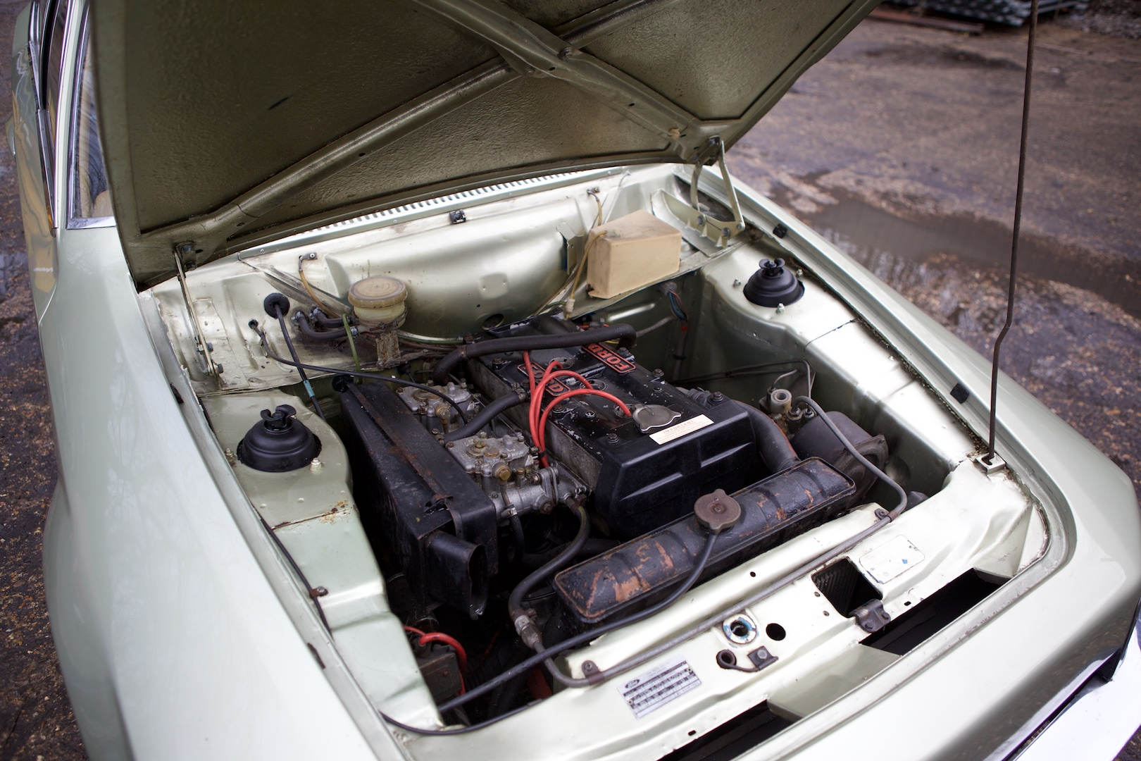 Ford Cirrus, Daily Telegraph Magazine competition car, built by Woodall Nicholson Ltd and Triplex Safety Glass Ltd. Designed by Michael Moore.